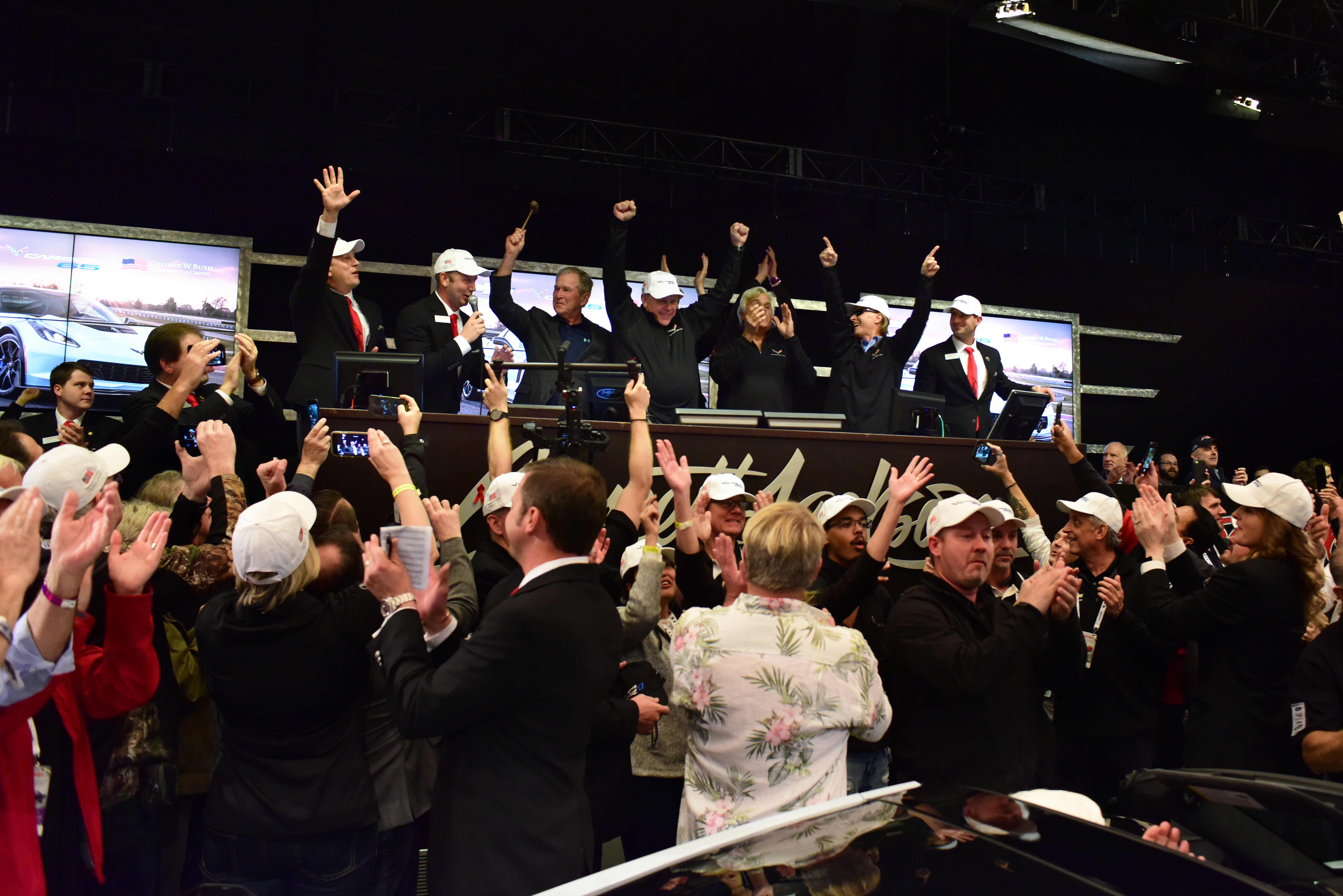 Former U.S. President George W. Bush on the auction block for the sale of the first production 2018 Corvette Carbon 65 to benefit the former president's Military Service Initiative.